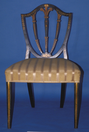 Chair, single, mahogany, painted Hepplewhite style shield back with Prince of Wales feathers. fluted legs